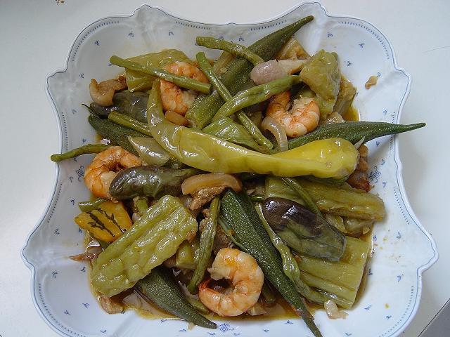 Pinakbet